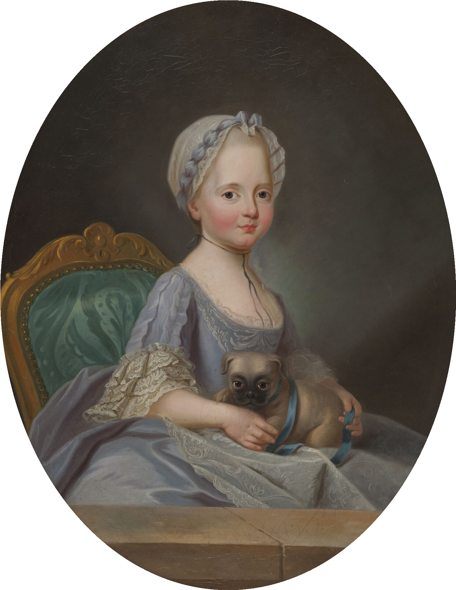 Madame Élisabeth, by Joseph Ducreux